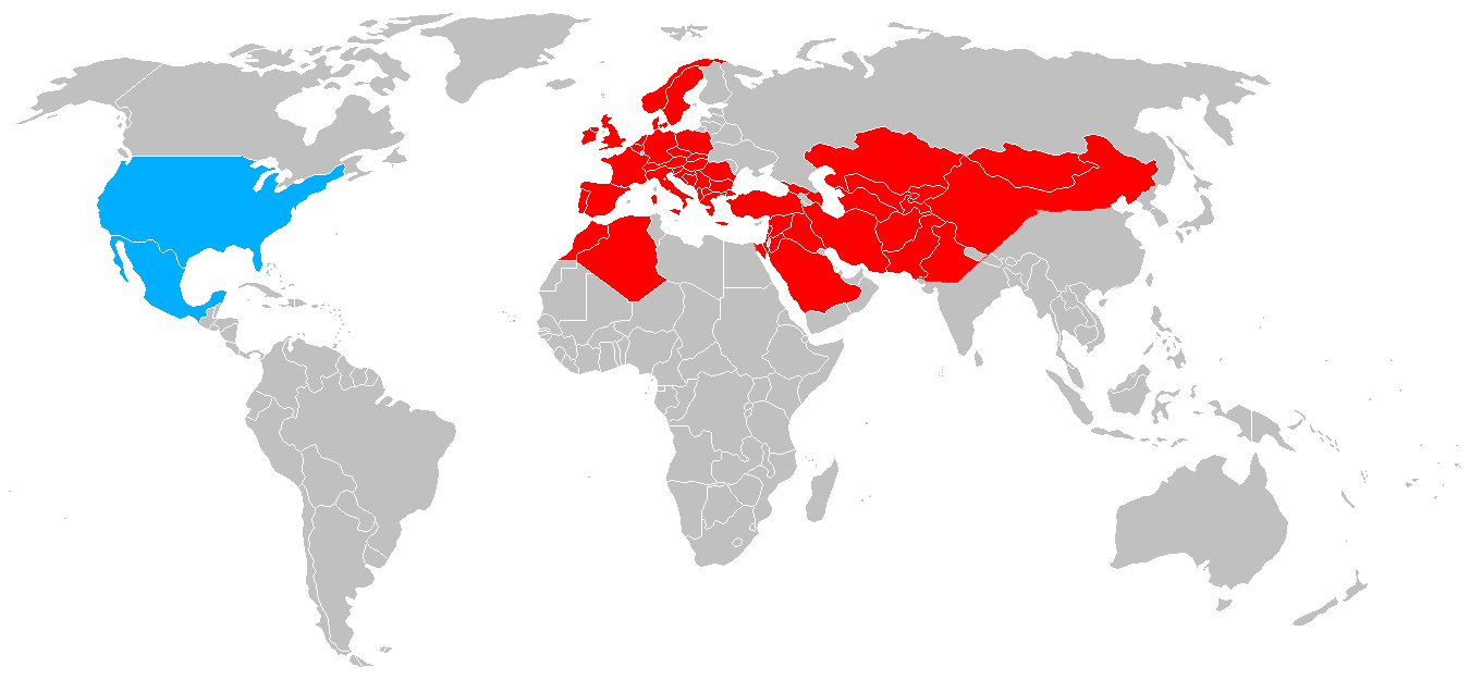 Distribution of Malva neglecta. Red: Native. Blue: Neophyte.